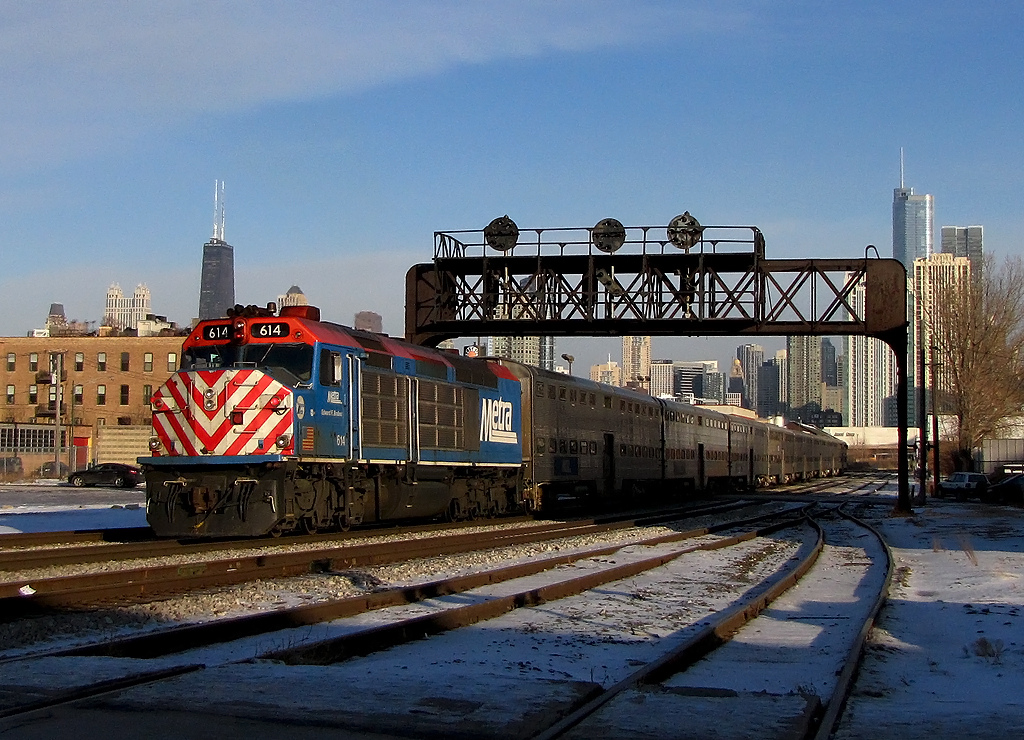 Metra 614 pushes a soon to be outbound commuter train into Union Station under the position lights at Racine ave on a cold January day.